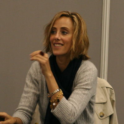 Actress Kim Raver at a London Expo convention in 2006